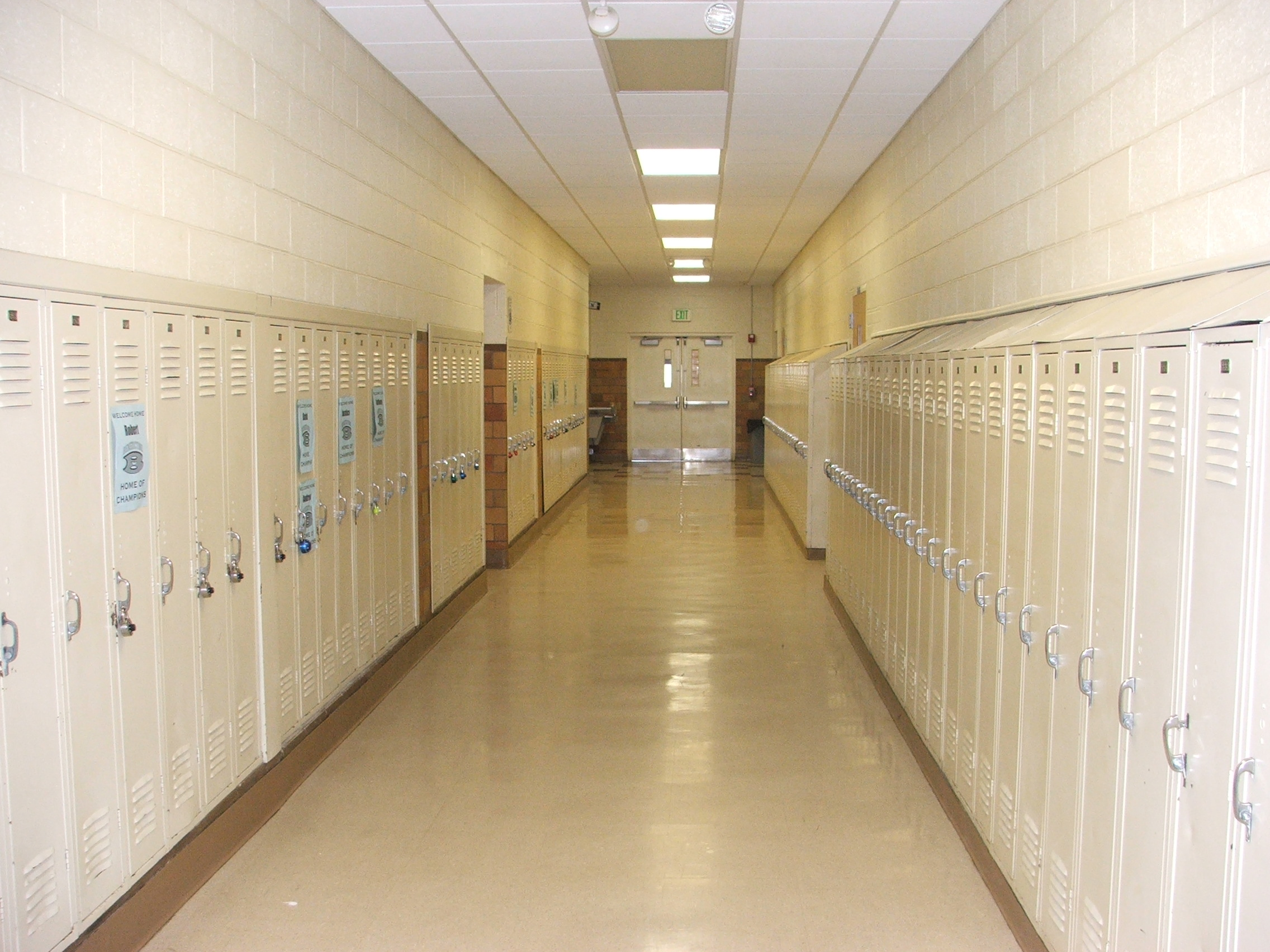 bene